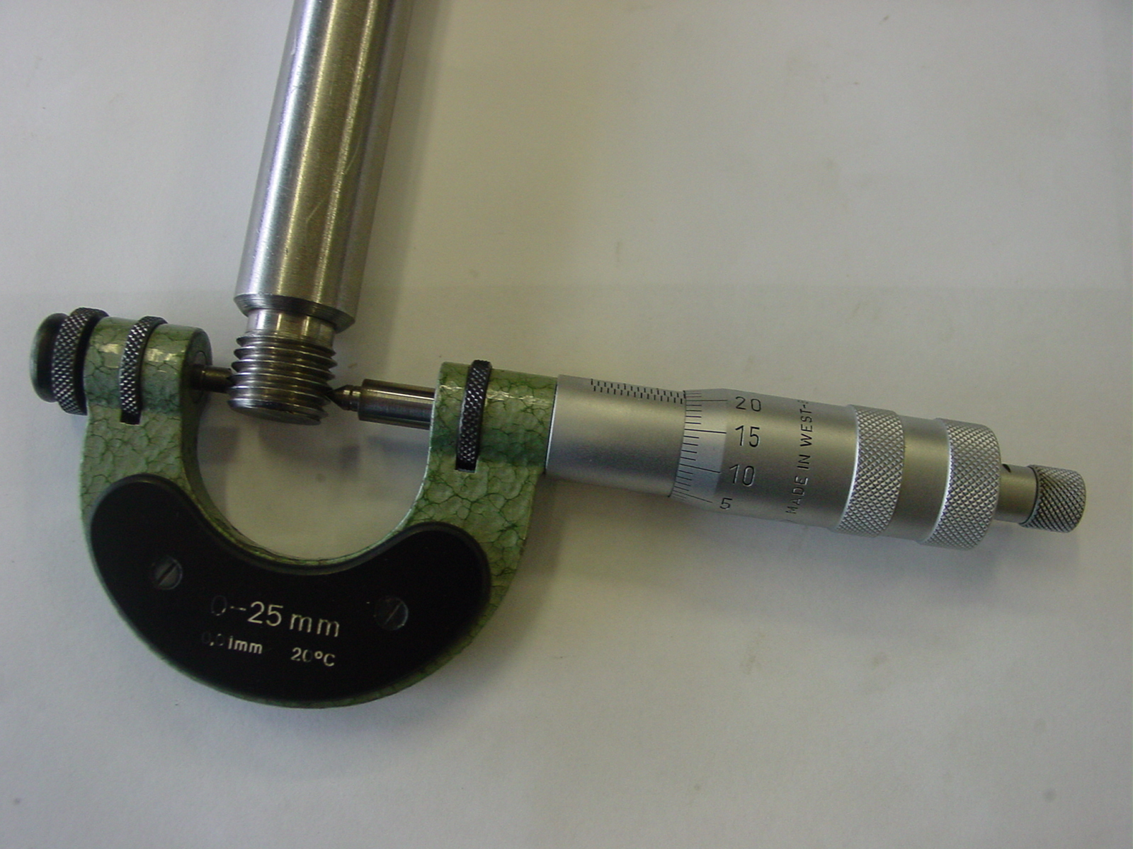 Thread Micrometer